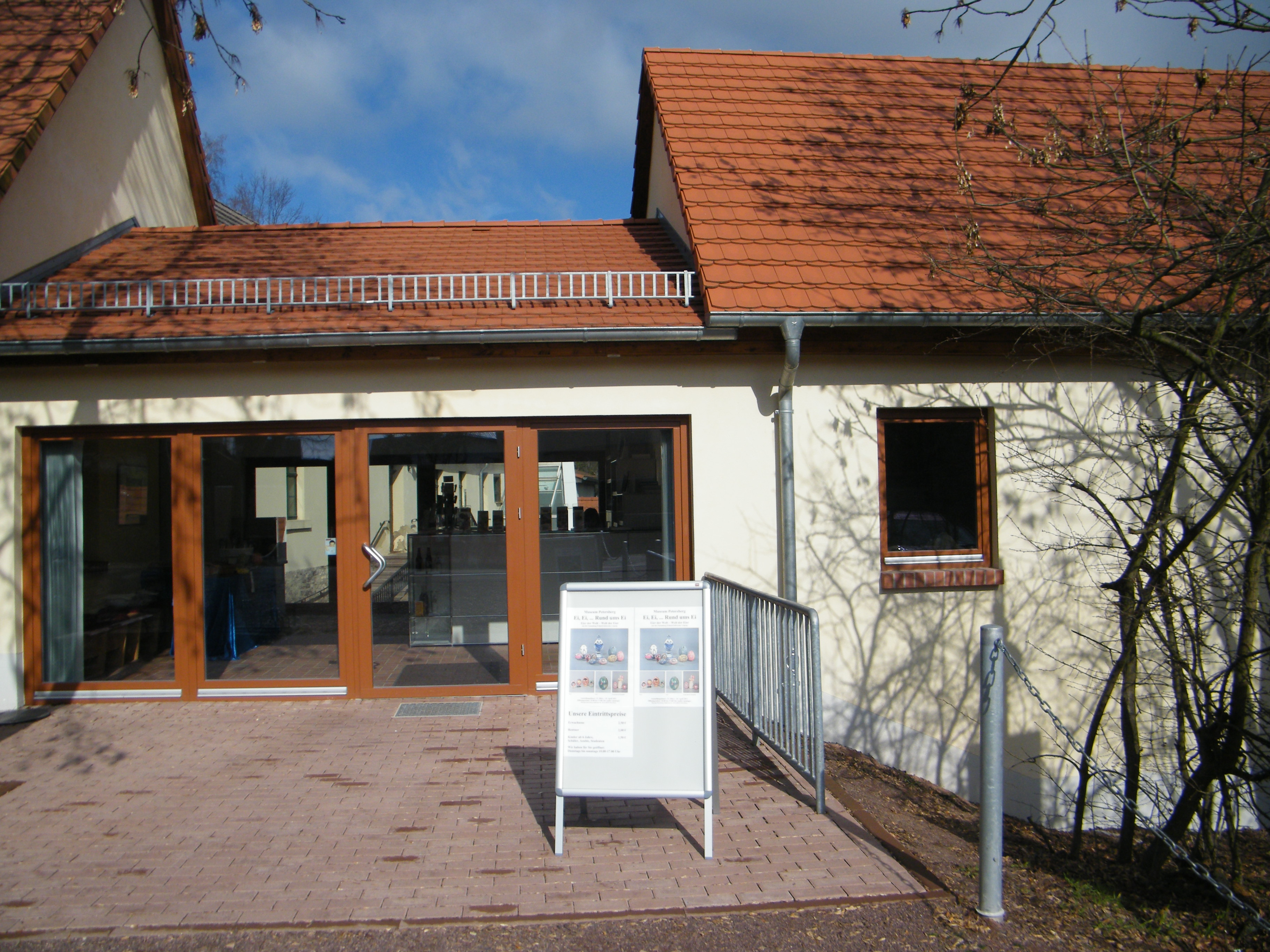 Museum Petersberg